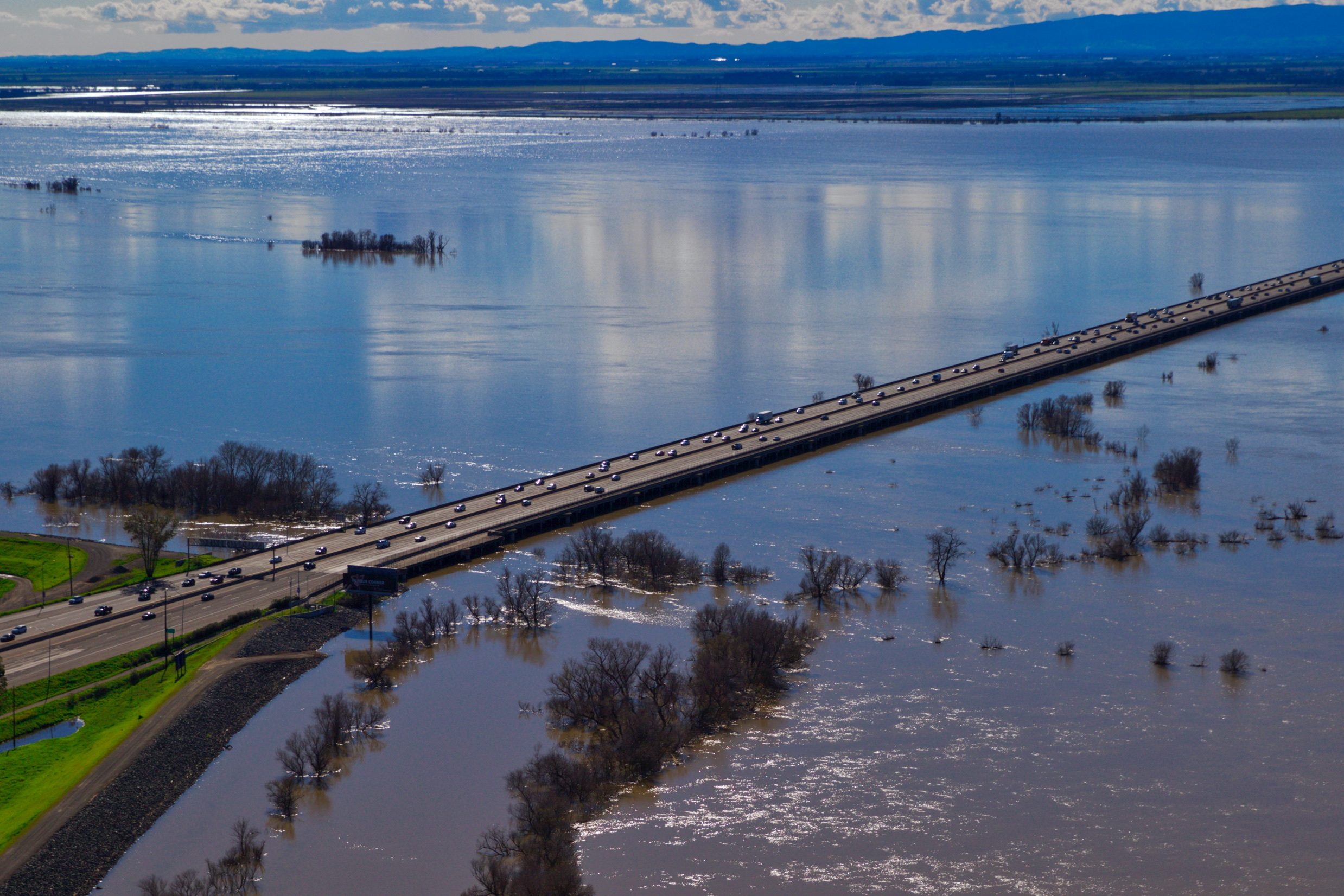 The flooded Yolo Bypass outside Sacramento, CA on Feb. 23, 2017. USFWS Photo/Steve Martarano